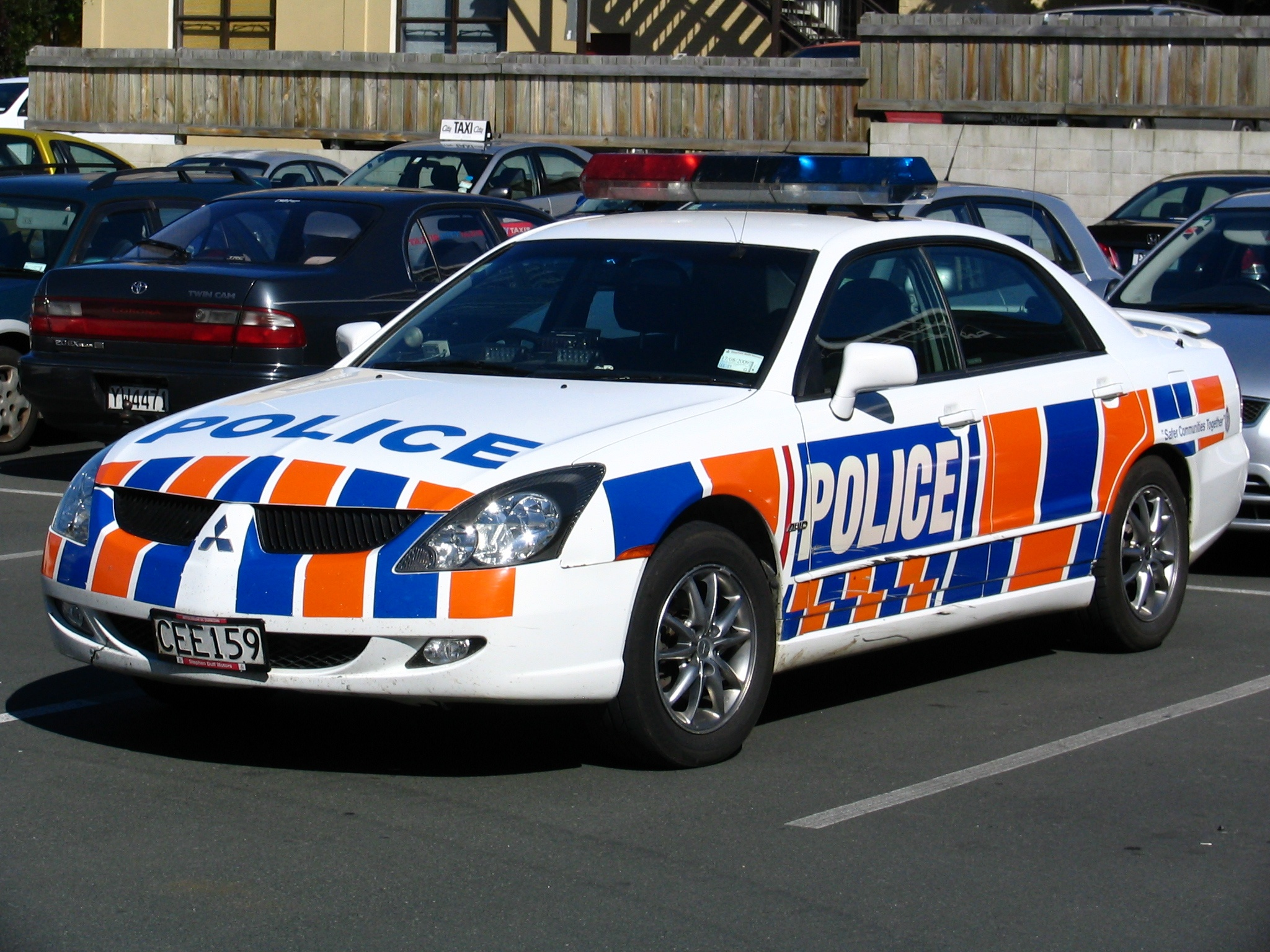 2003–2004 Mitsubishi Diamante (TL) VR AWD (New Zealand Police), photographed near Dunedin Central police station, Dunedin, New Zealand.